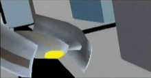 Demo effect